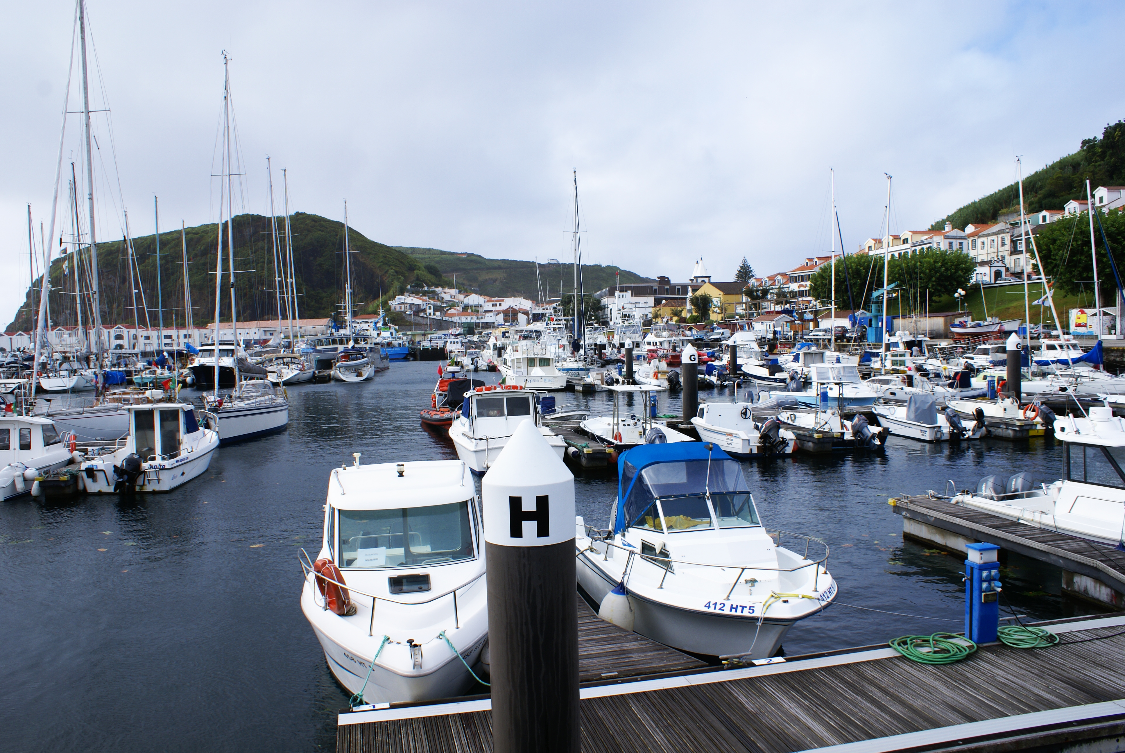 Marina da Horta, Concelho da Horta, ilha do Faial, Açores, Portugal